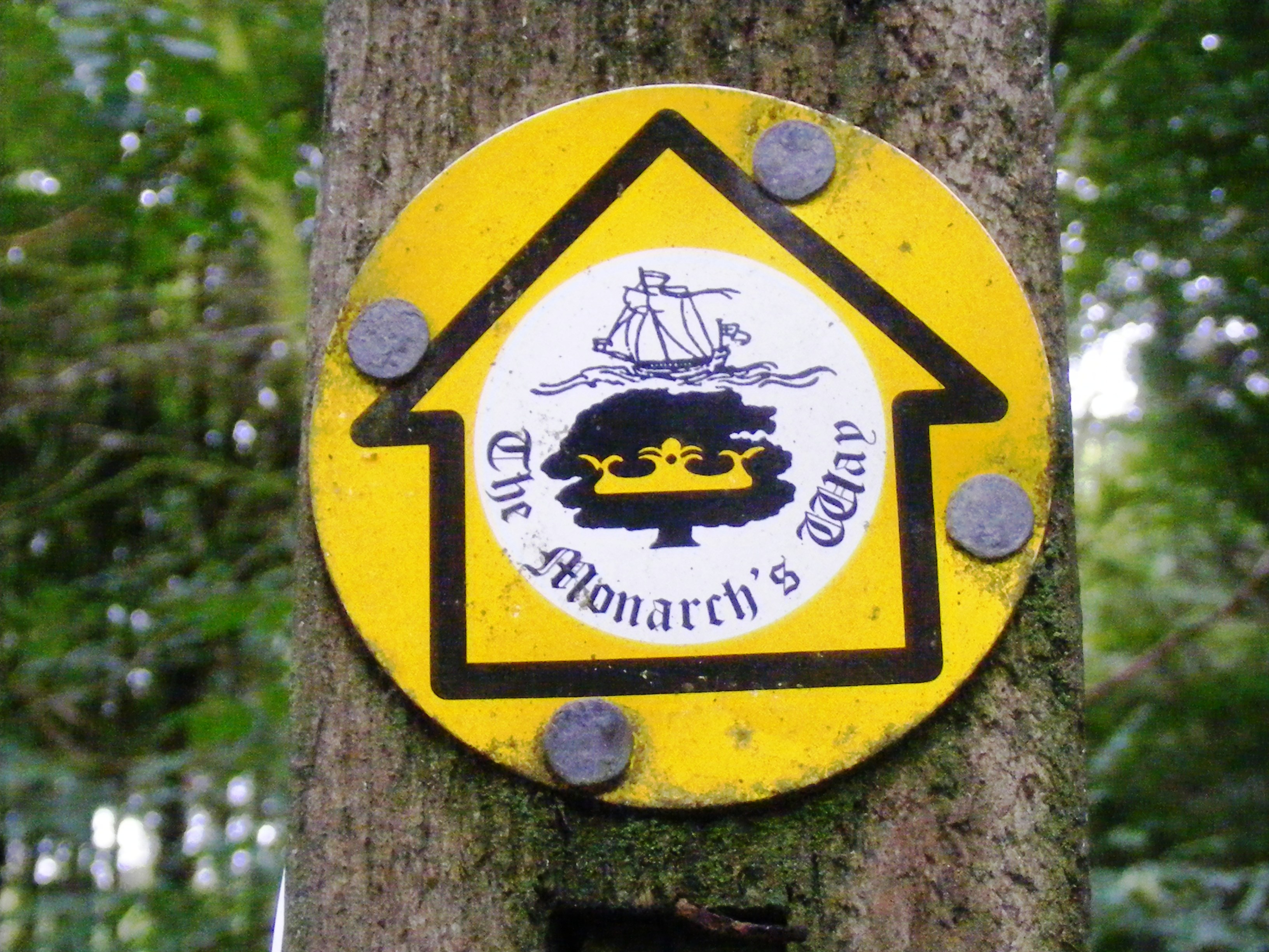 Sign for the Monarch's way long distance footpath